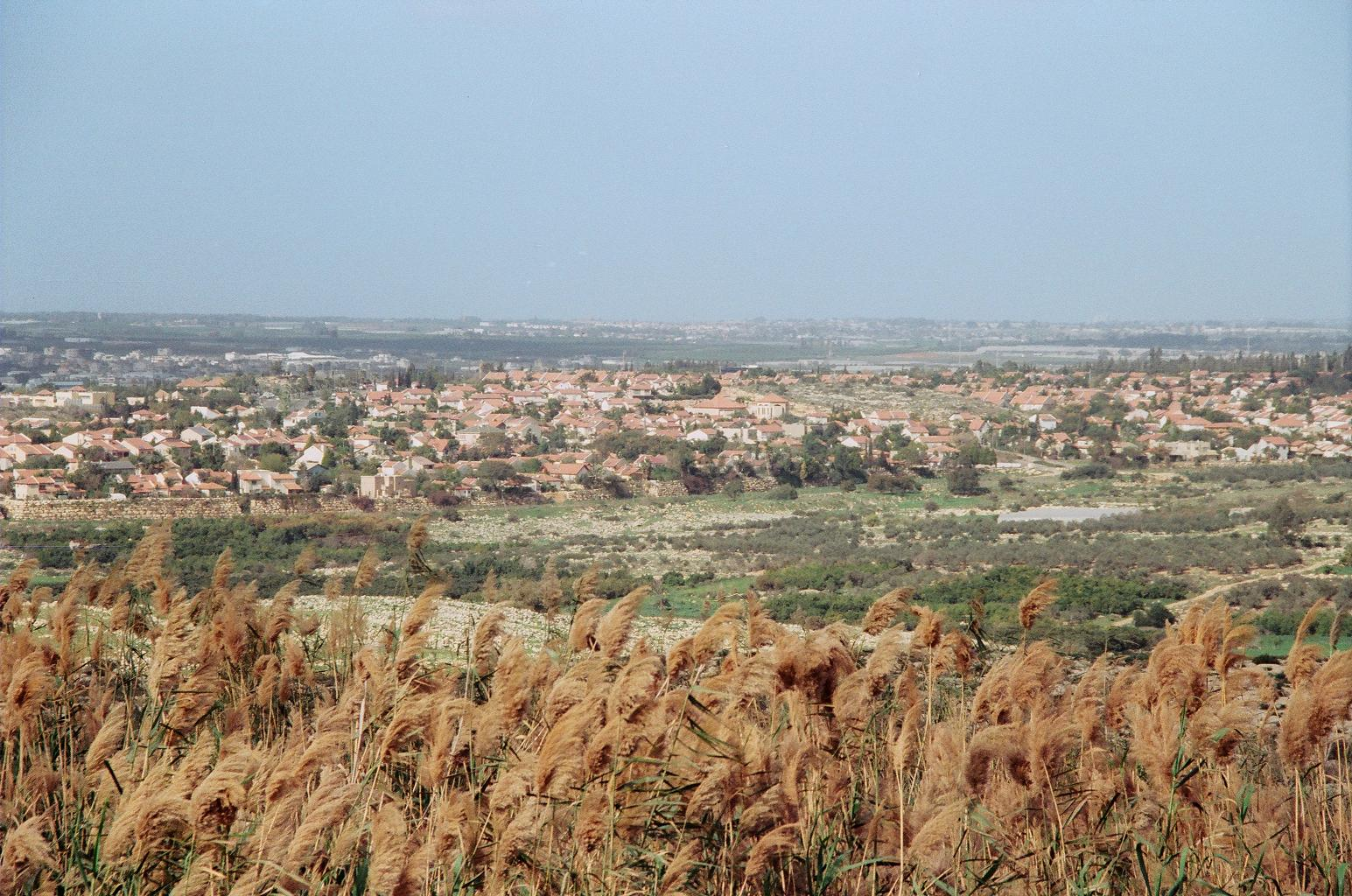 Kokhav Yair, as seen from southeast